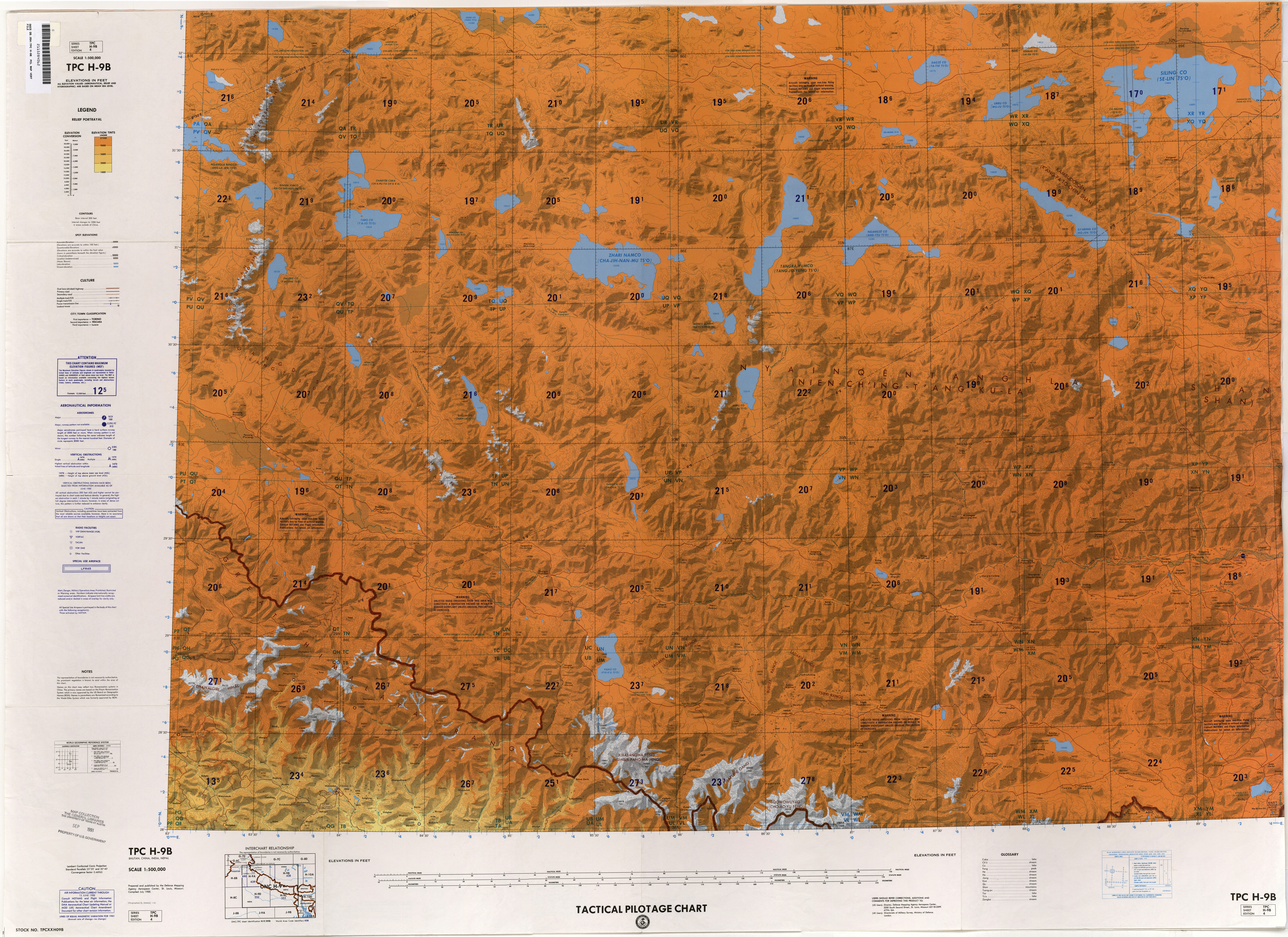 Tactical Pilotage Chart Series - World 1:500,000 Scale